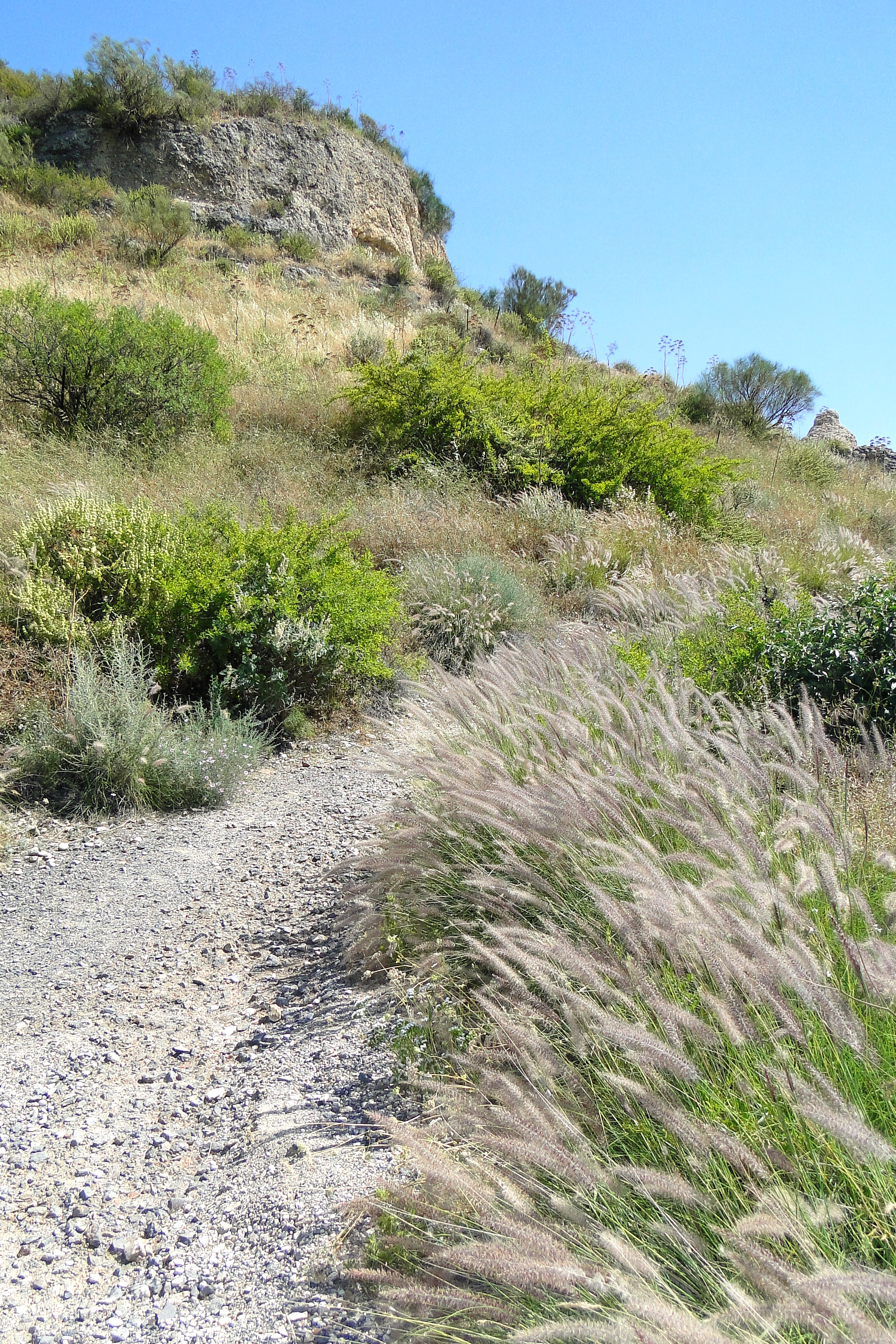 Spring Landscape with Byzantine Chapel - Kursi National Park.